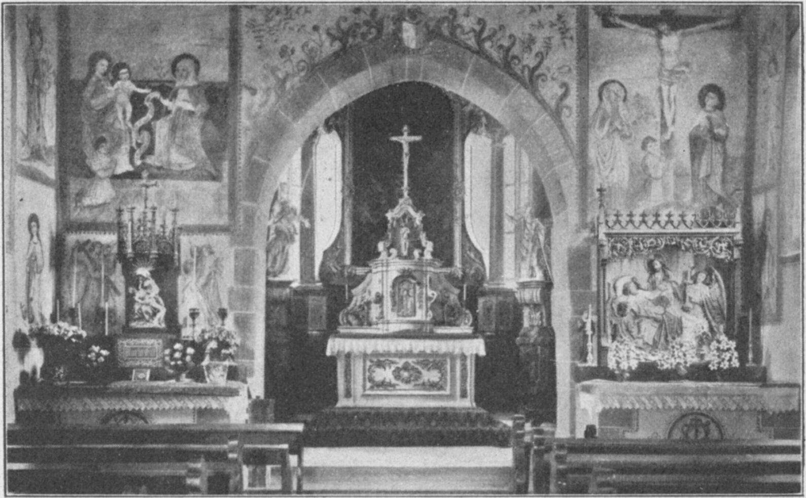 Interior of the Bühlwegkapelle in Ortenberg, Baden-Württemberg, as of 1909